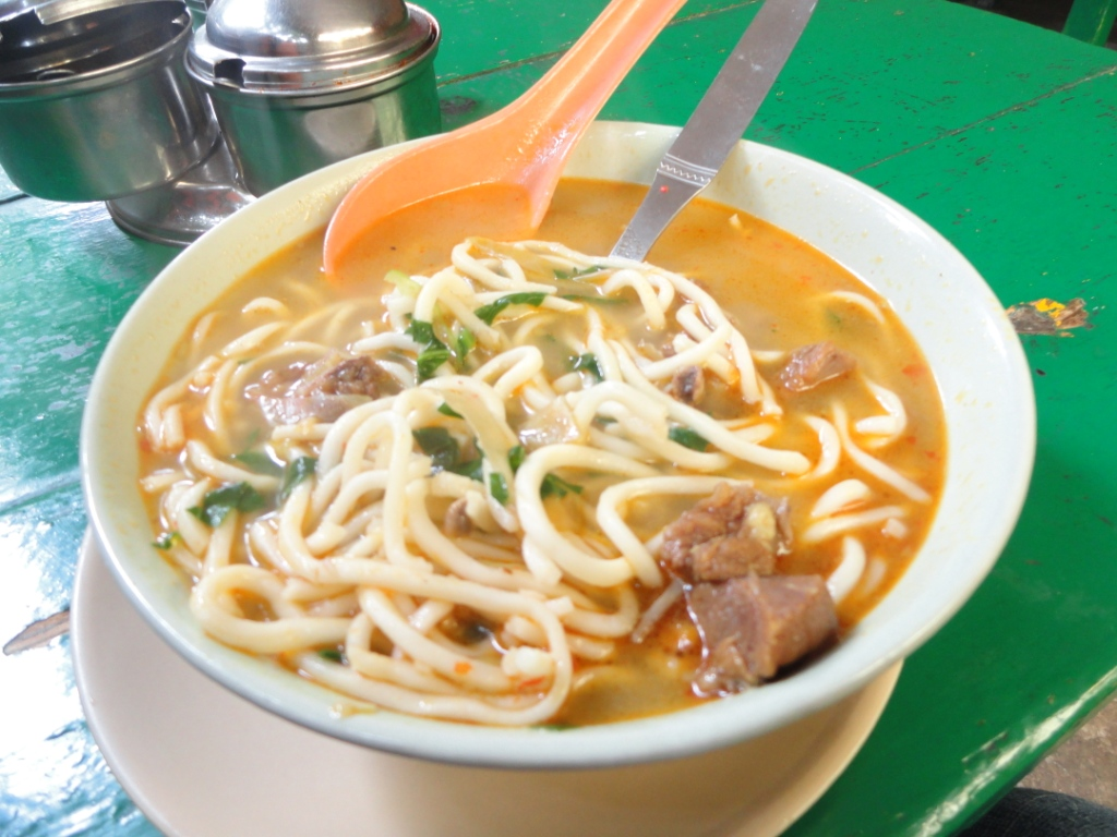 Lamb and noodles in broth, a staple food at the himalyan peaks